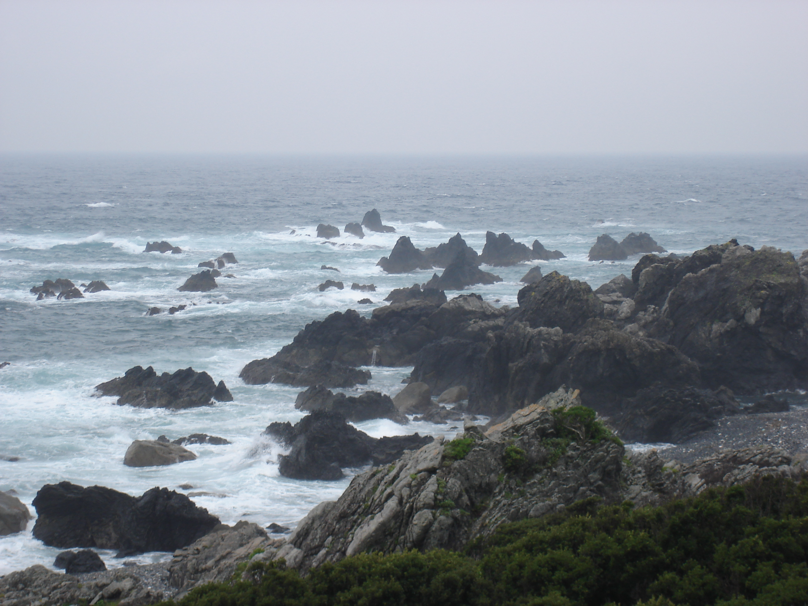 Muroto Cape, Muroto, Kochi, Japan